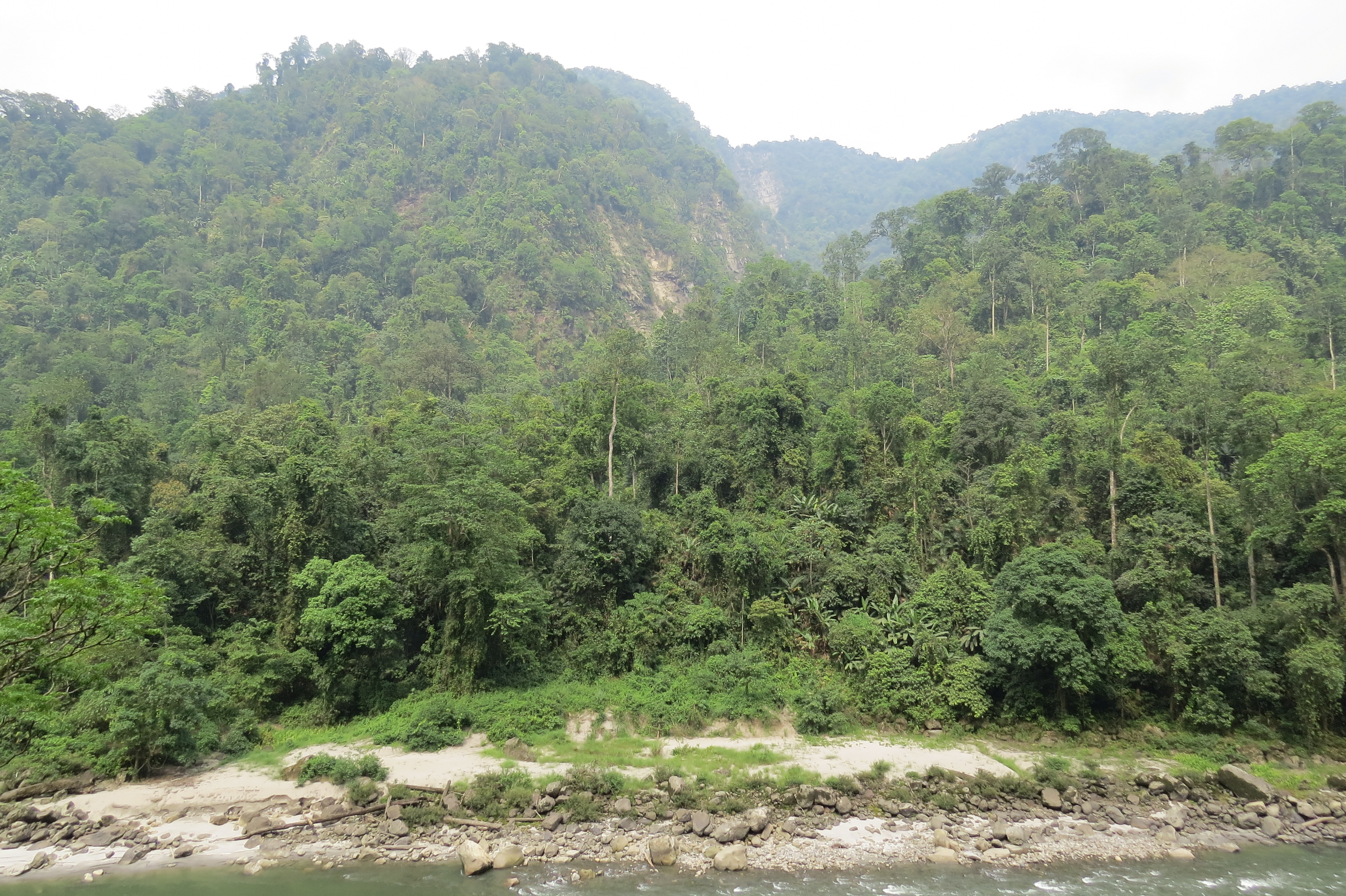 A view of the Pakke TR, May 2015, AJT Johnsingh